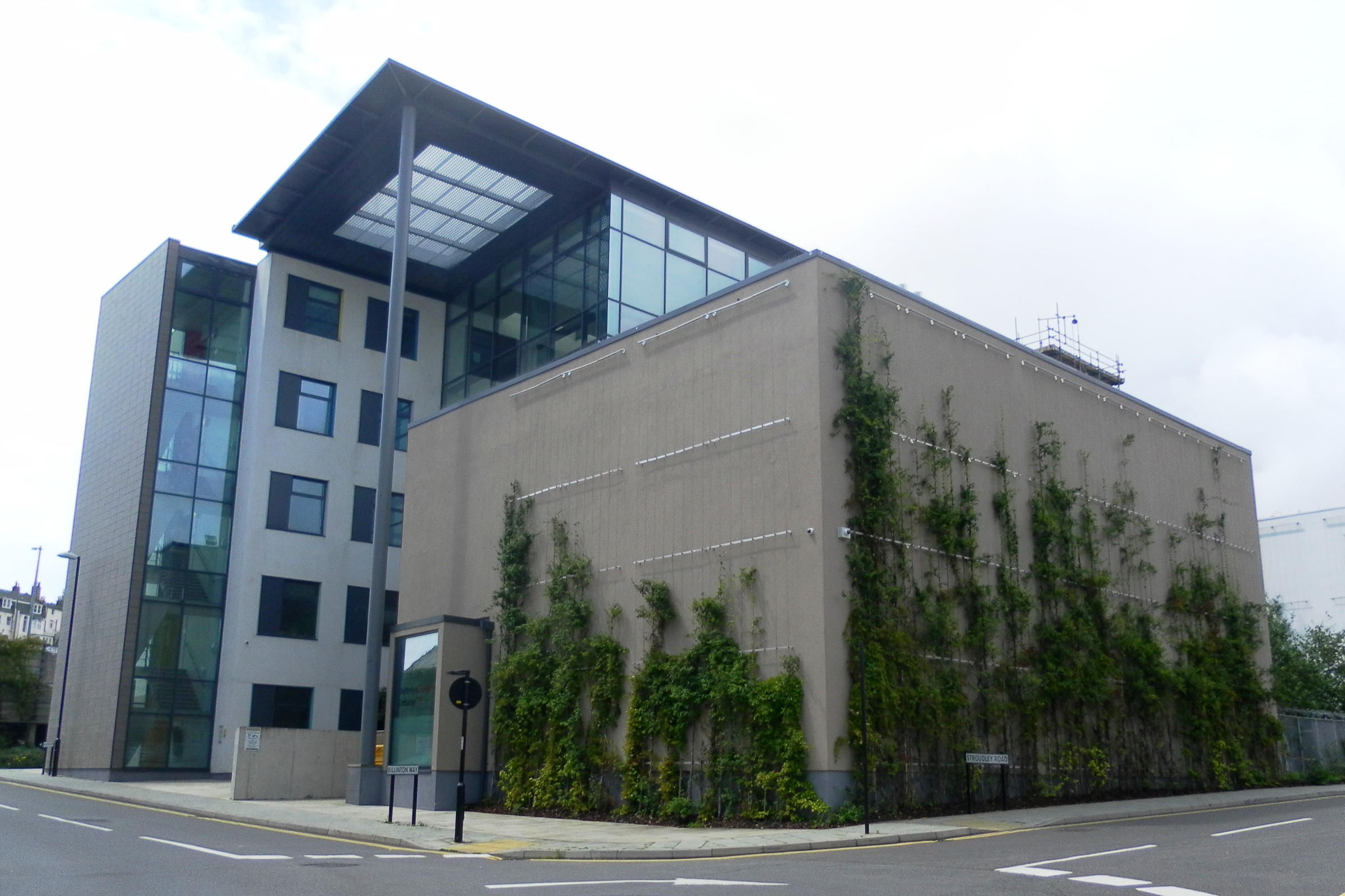 Bellerbys College, Billinton Way, New England Quarter—a large mixed-use development next to Brighton railway station in the City of Brighton and Hove, England. This building fills "Block M" of the New England Quarter development and is a preparatory college for foreign students intending to go to British universities.